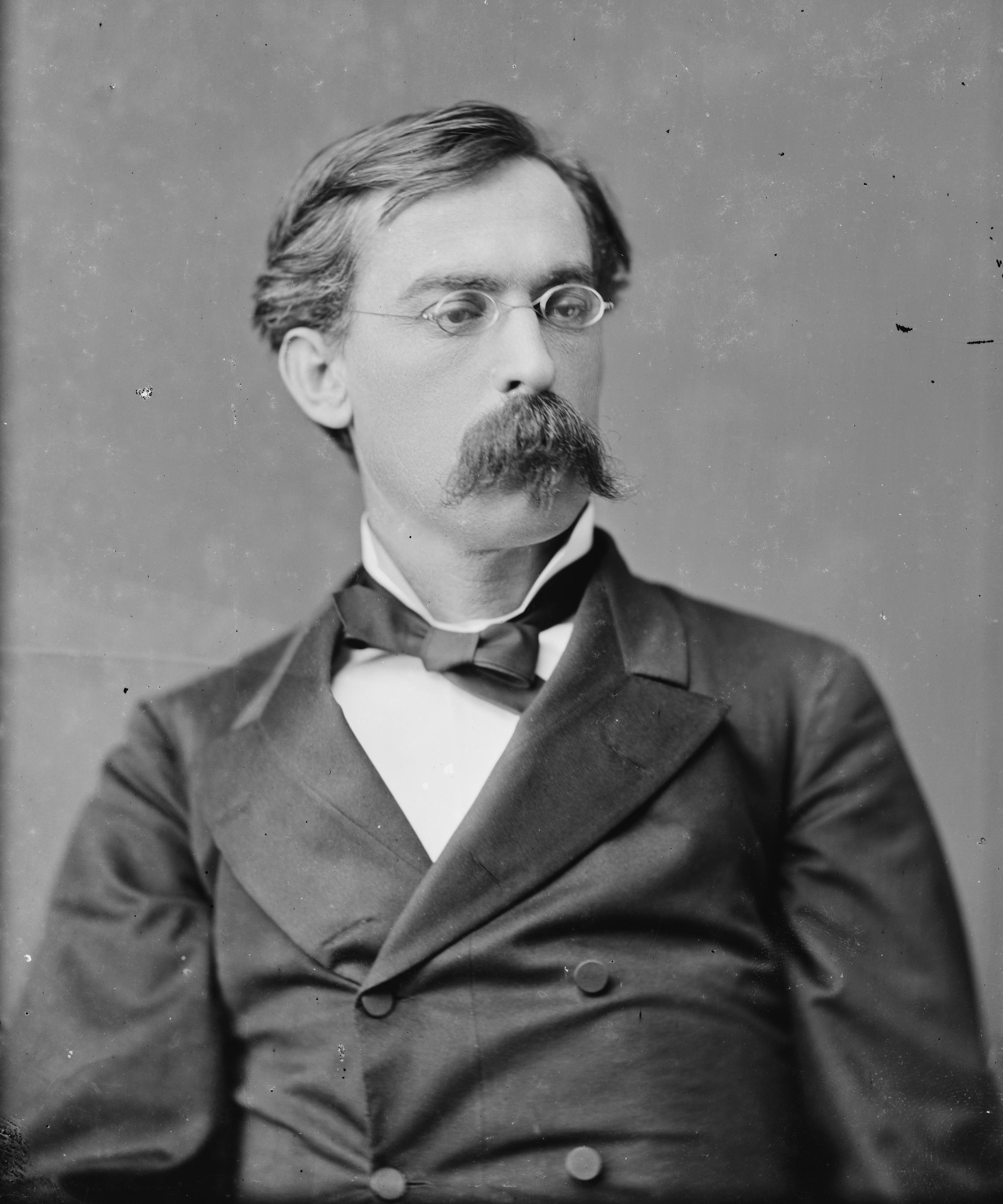 Hernando Money. Library of Congress description: "Money, Hon. Hernando DeSoto of Miss.".